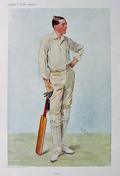 Caricature of Reginald Herbert "Reggie" Spooner (1880-1961). Brief biography read "Educated at Marlborough. Played for Lancashire and England. Also played Rugger for England. Served in the Boer War".